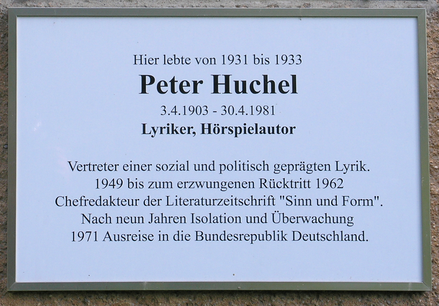 Memorial plaque, Peter Huchel, Kreuznacher Straße 52, Berlin-Wilmersdorf, Germany Koordinate:52°28′2″N 13°18′47″E / 52.46722°N 13.31306°E